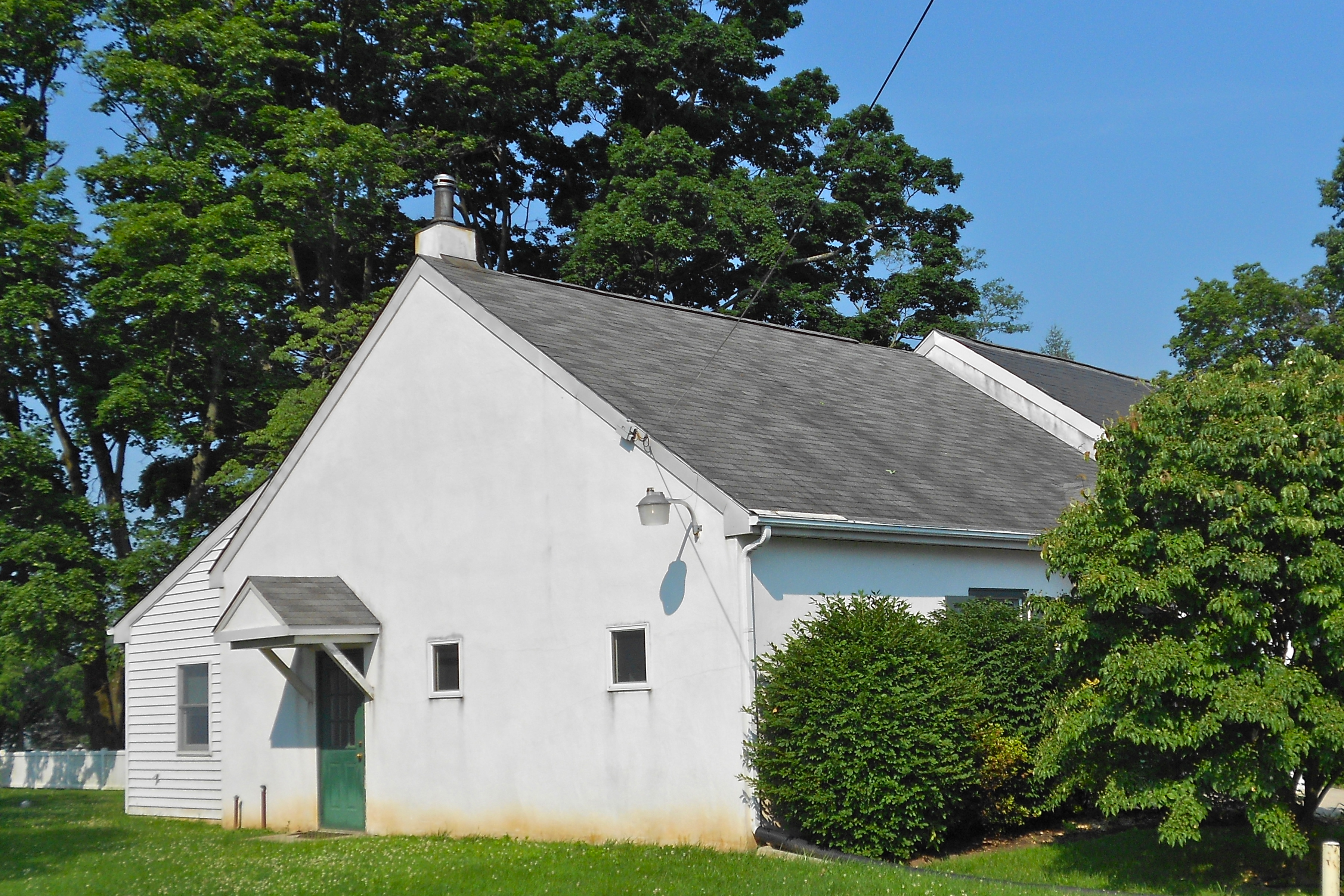 Fallowfield Friends Meetingin Ercildoun, Pennsylvania in Chester County, Pennsylvania. This is the older part (1811).